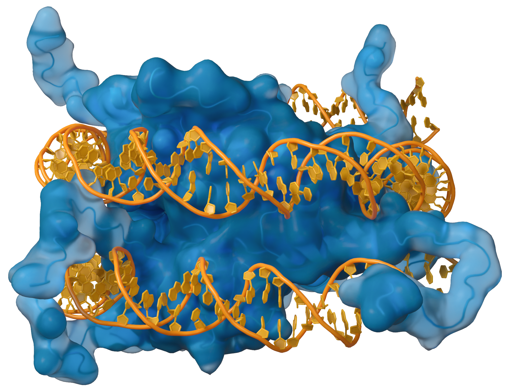 Molecular surface of histones is shown in blue and the DNA in orange. Created from PDB 1EQZ